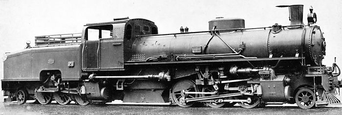 Belgian Golwe locomotive for Ivory Coast railways, made by the "Forges, Usines et Fonderies d’Haine-Saint-Pierre".